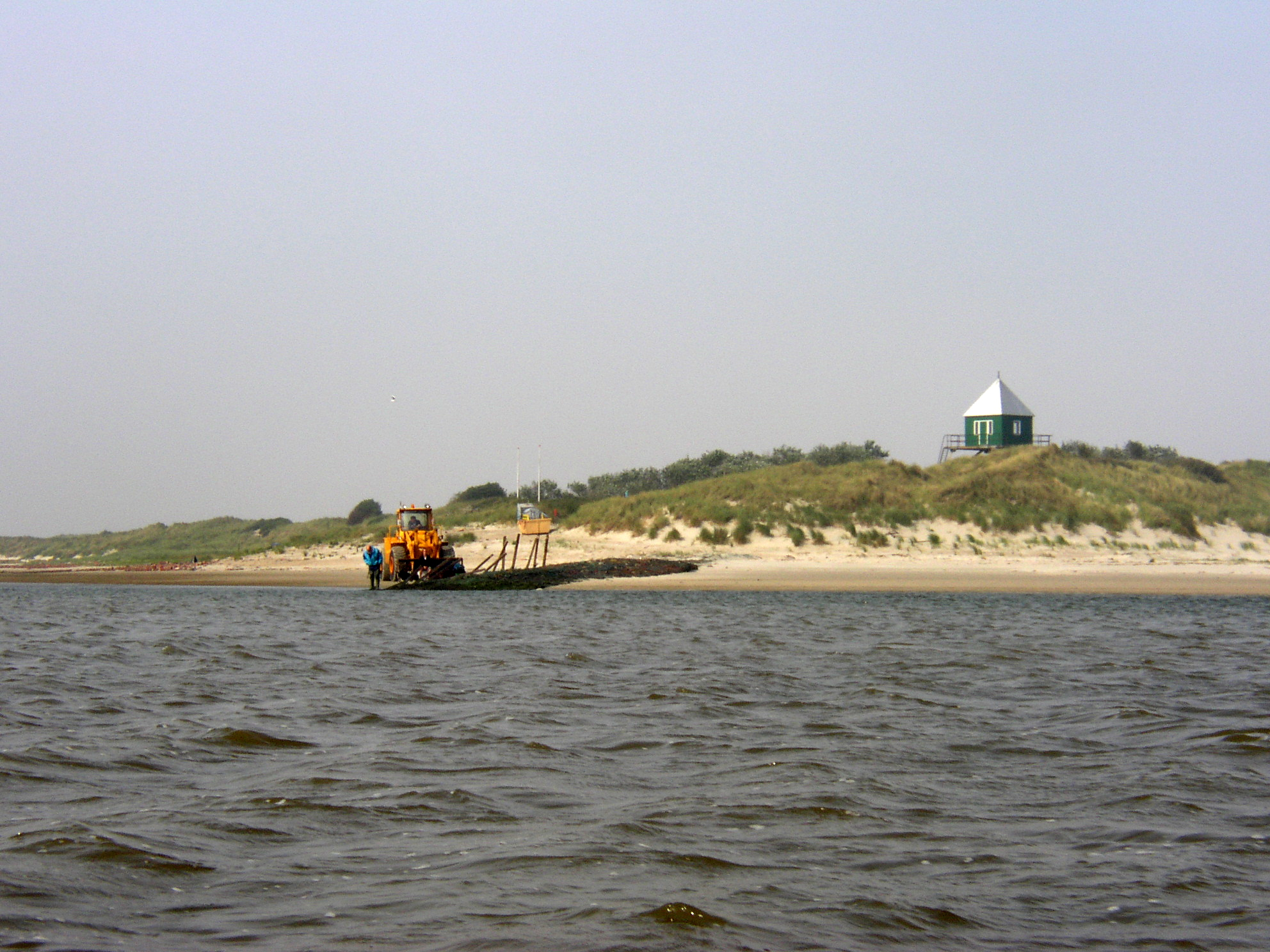 The Dutch island of "Rottumerplaat" seen from the sea - the observation tower dominates the view of the island from quite a long way away. The shovel is used to move luggage into and out of the small boat that is used to take people to and from the island.